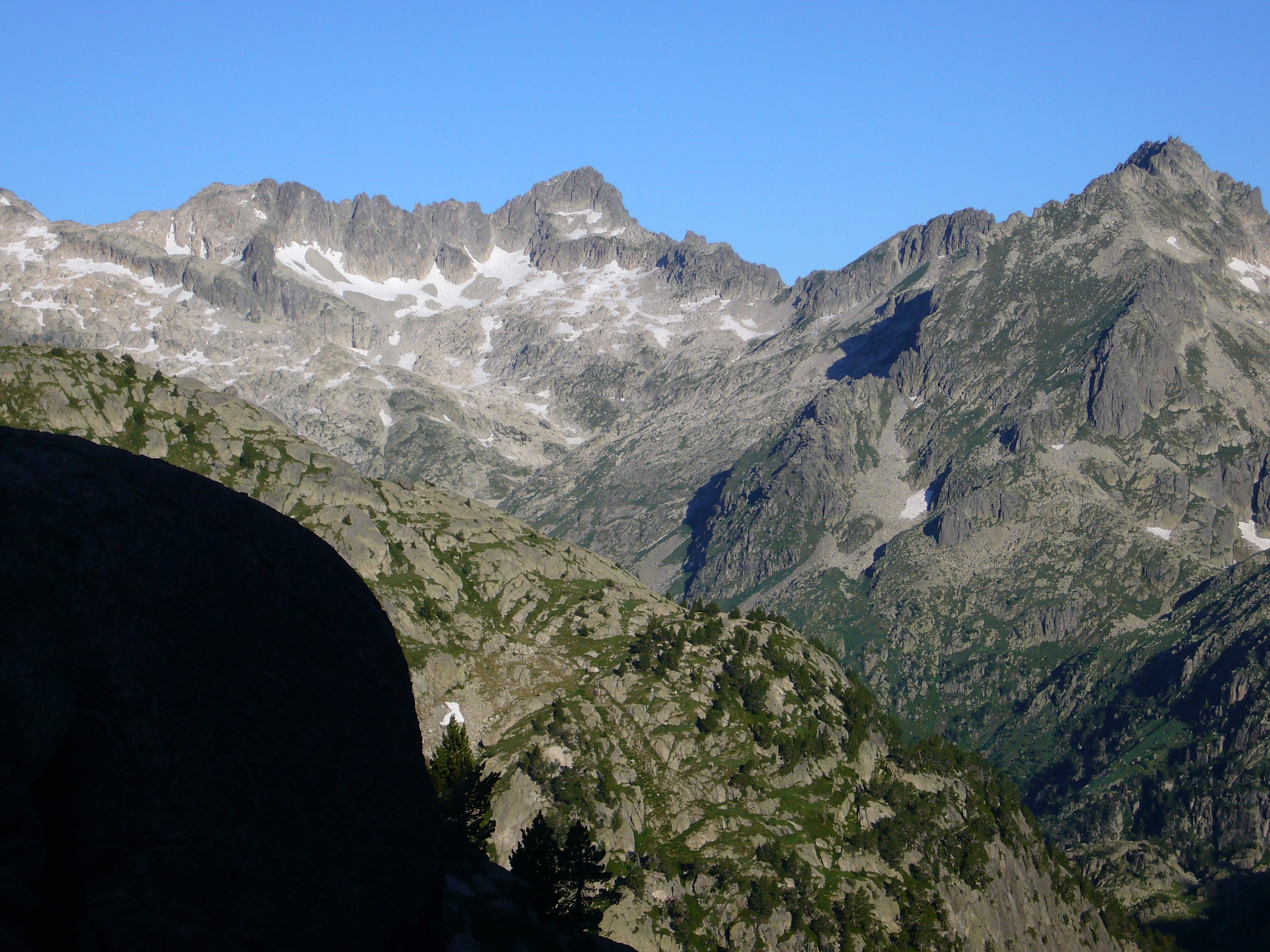 Besiberri del Mig, Besiberri Nord i Punta d'Harlé; la Vall de Boí, Alta Ribagorça, Catalonia